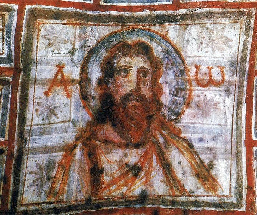 Mural painting of Jesus Christ from the catacomb of Commodilla. Rome, late 4th century. The symbols on either side are Alpha and Omega. Remember that the Christ is "beginning and end." Revelation 22, 13: "I am Alpha and Omega, the beginning and the end, the first and the last."